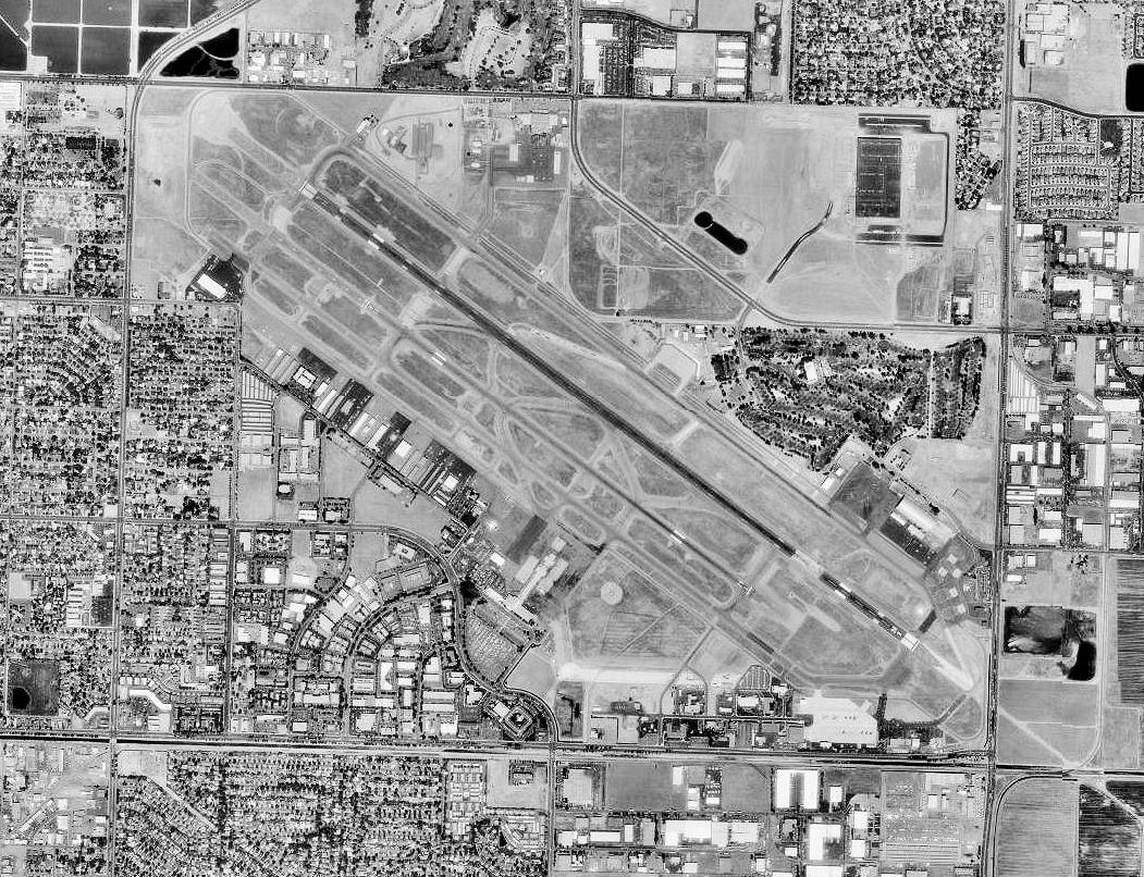 Aerial image of Fresno Airport, California